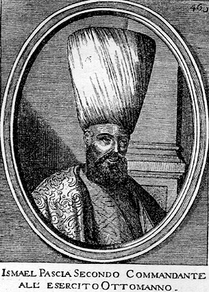 Ismail Pasha, the second Ottoman commander in the Battle of Saint Gotthard, and commander of Buda